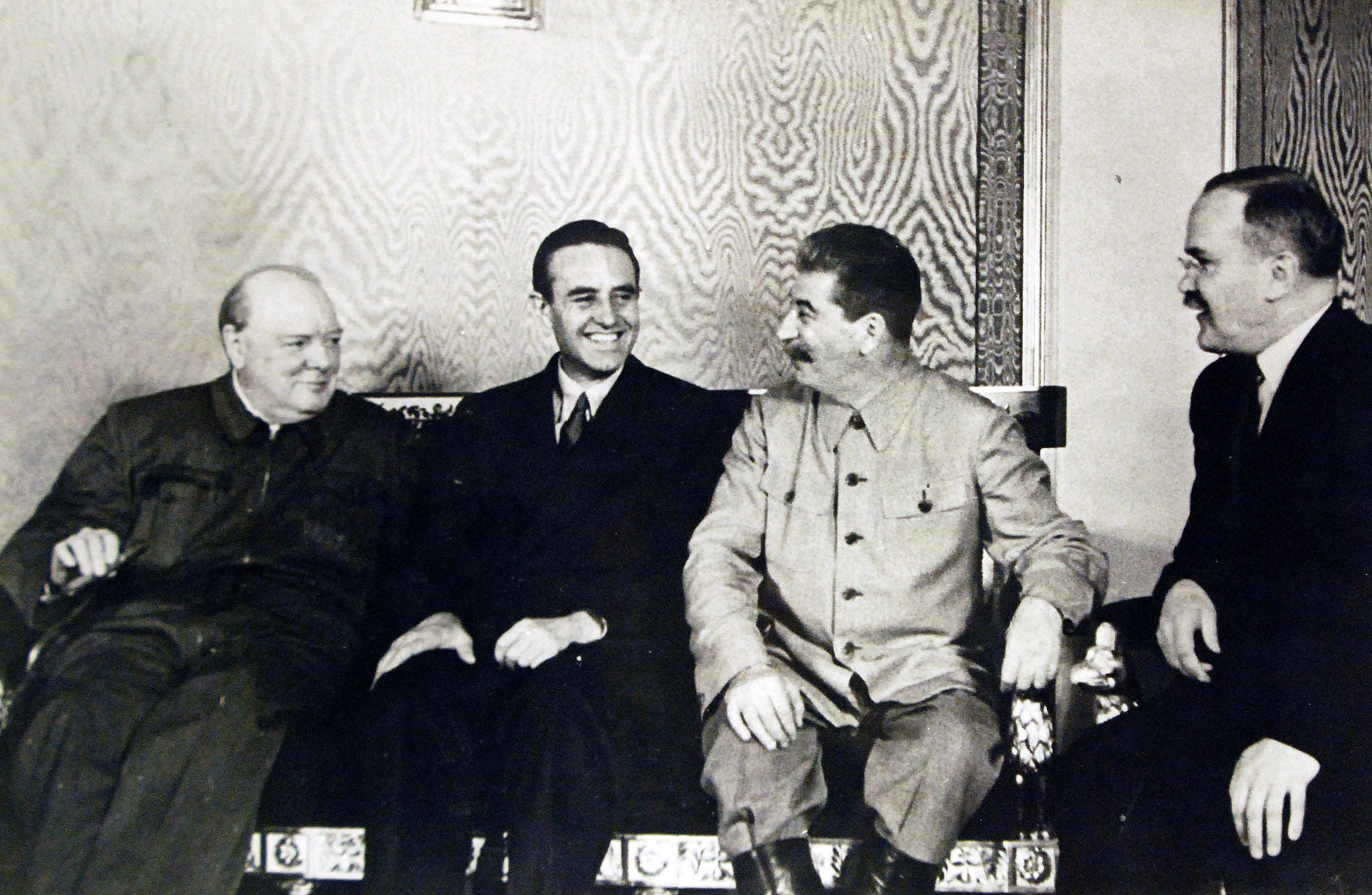 Lot 11596-8: Moscow Conference, August 12-17, 1942. Left to right, foreground: Prime Minister Winston Churchill; W. Averrell Harriman, representing President Franklin D. Roosevelt; and Premier Joseph Stalin with V. M. Molotov, Peoples’ Commissar for Foreign Affairs. Office of War Information Photograph. (2016/01/15).